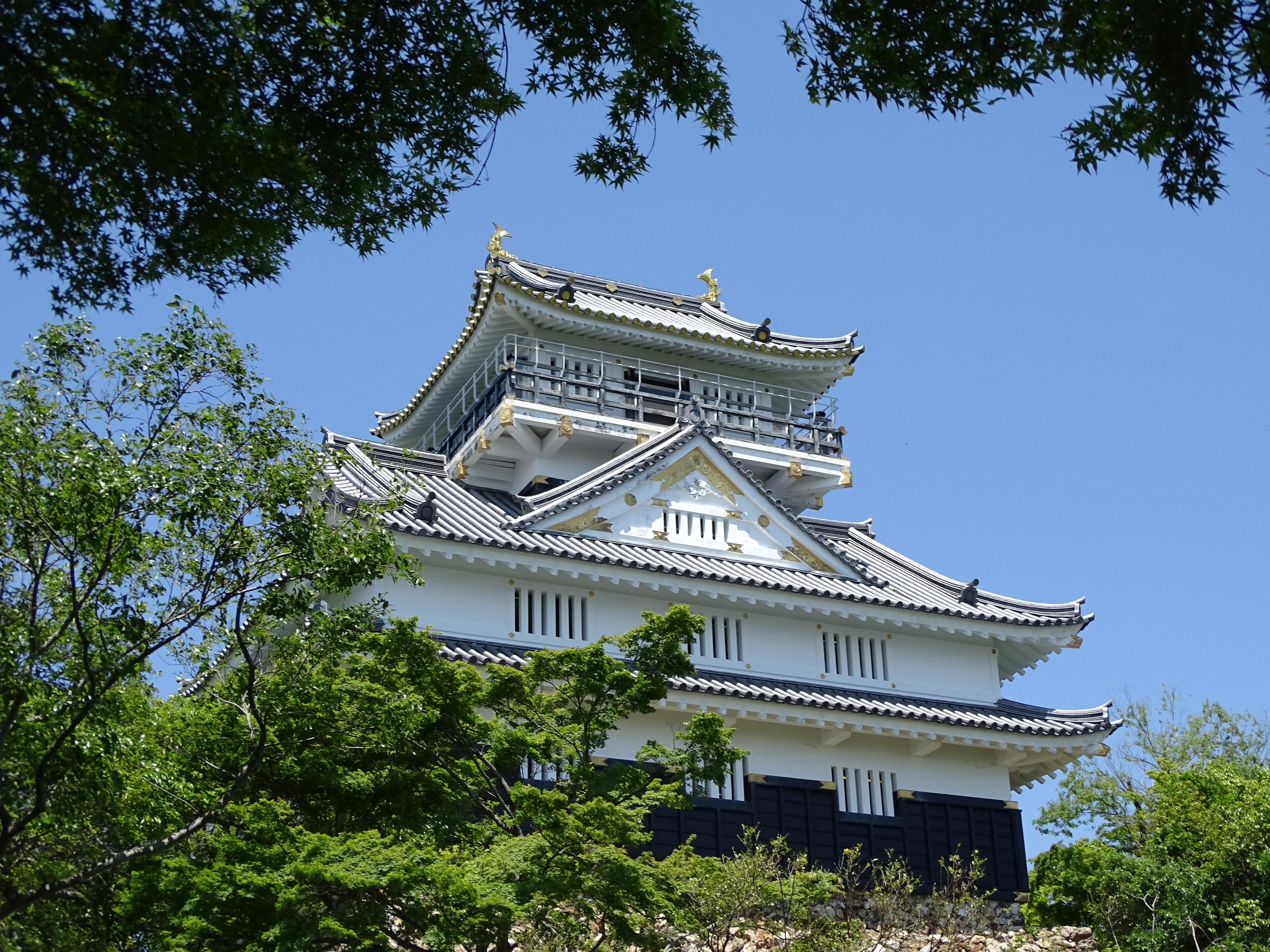 Gifu Castle - Gifu - Japan - 02